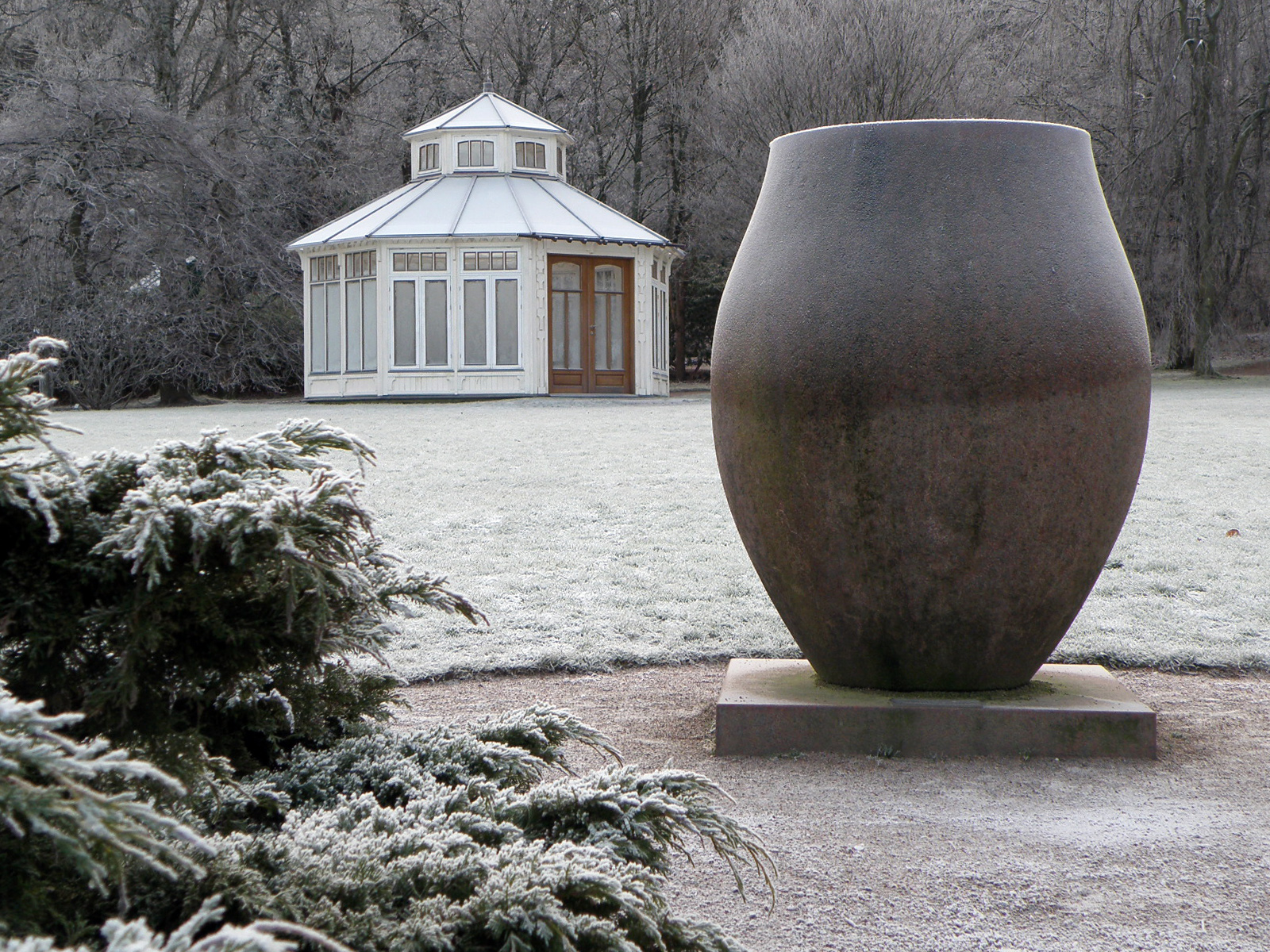 Sculpture: Tulip, Eva Lange, 1995. The Botanical Gardens, Gothenburg, Sweden